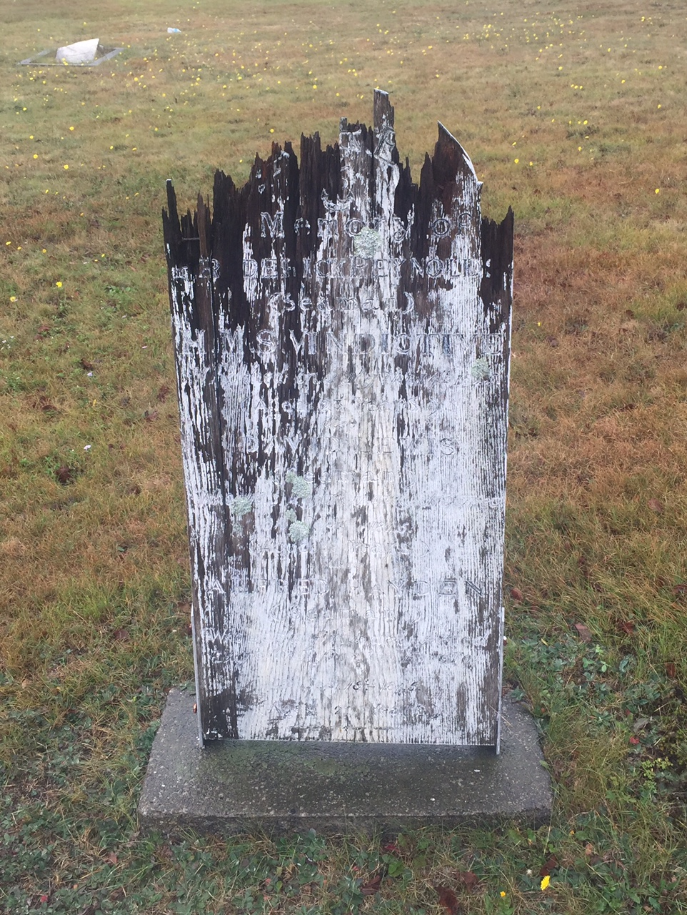 HMS Vindictive, Royal Naval Burying Ground, Halifax, Nova Scotia